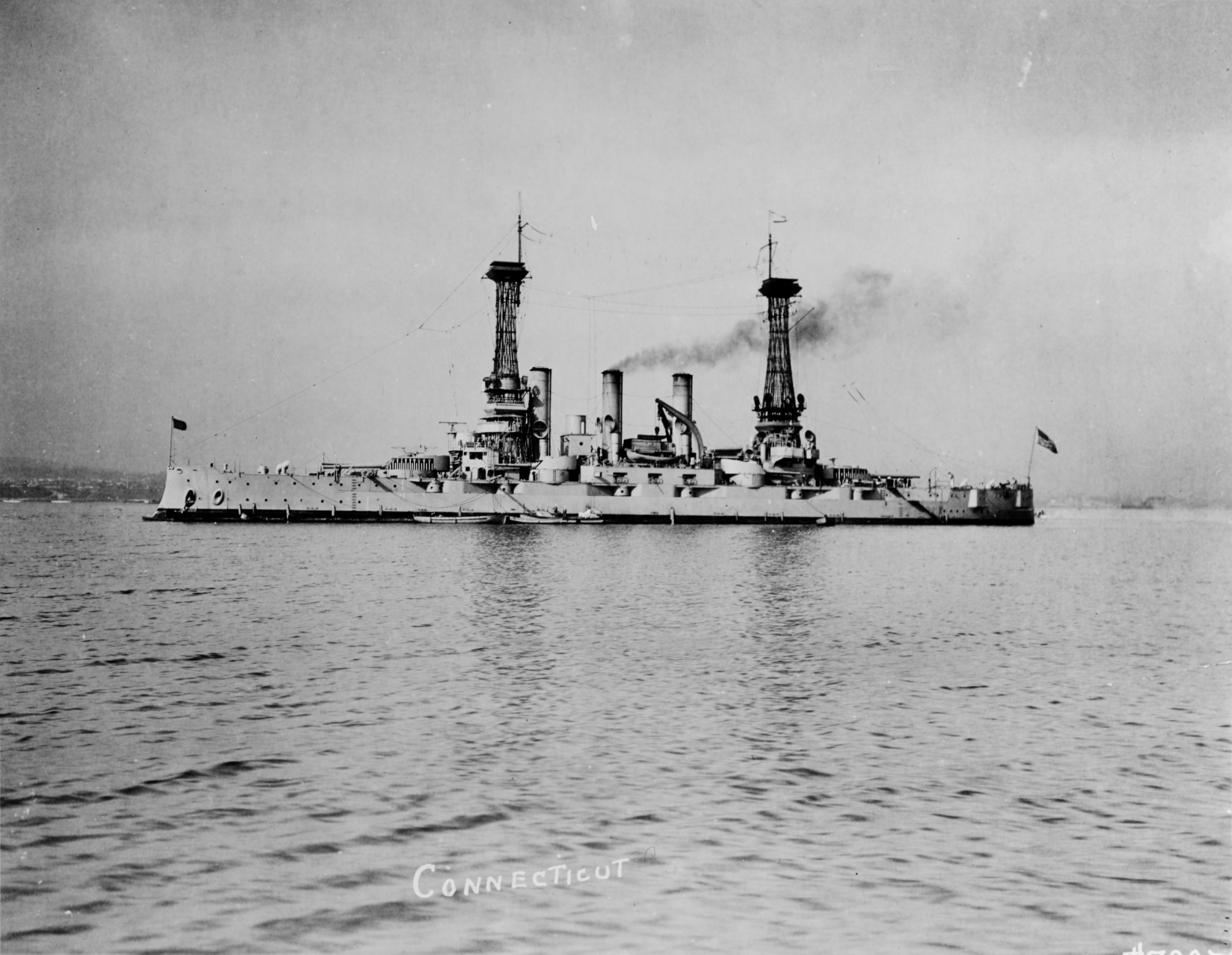 (Battleship # 18) Photographed about 1920. U.S. Naval History and Heritage Command Photograph.